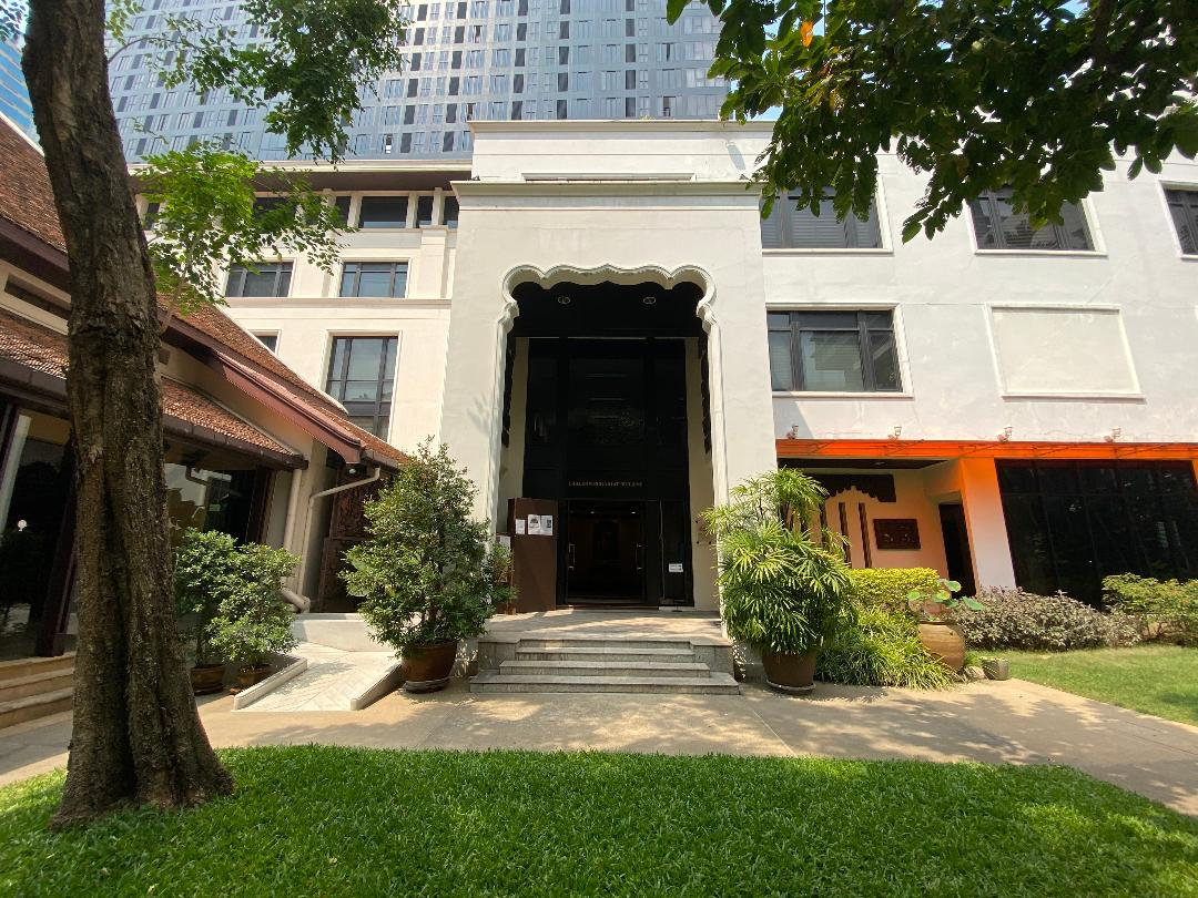 The main Chalerm Phrakiat Building of the Siam Society, photographed in 2019